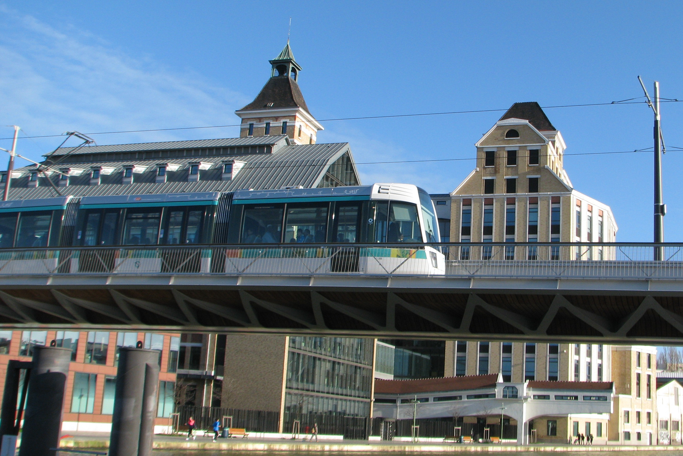 Streetcar T 3b on the bridge crossing the canal de l'Ourcq, Paris, France